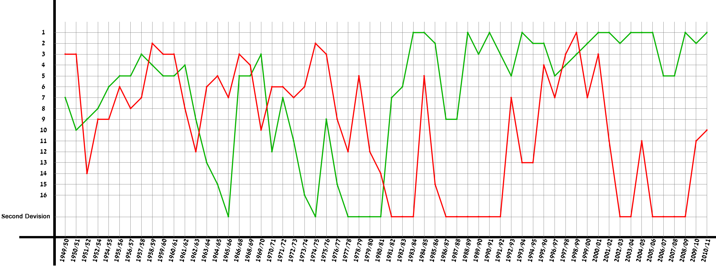 A first division league position graph between Hapoel Haifa and Maccabi Haifa for the Haifa Derby